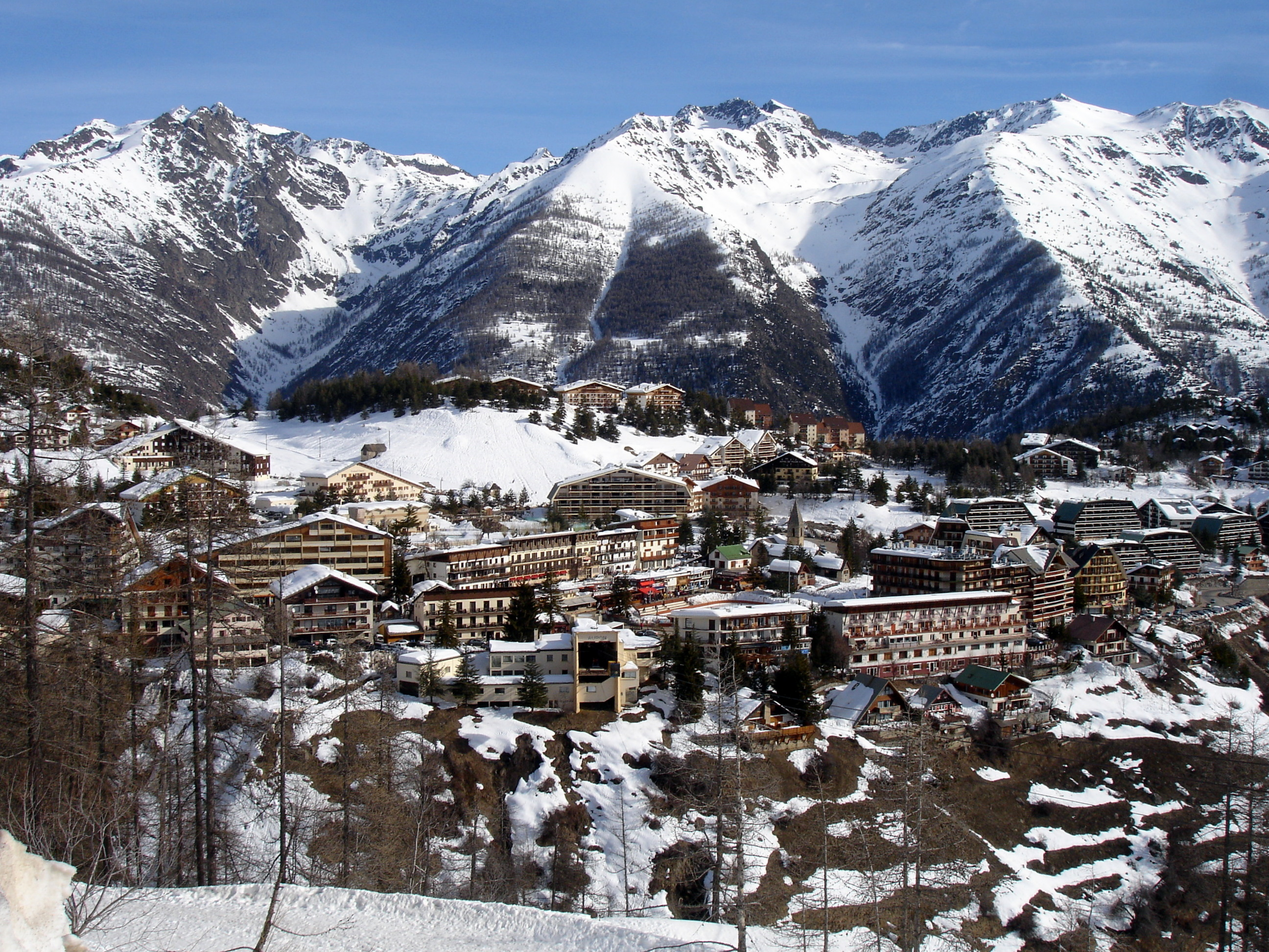 General view of the village of Auron, a French ski resort, in winter time.